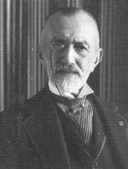 Abdülhak Hâmit Tarhan